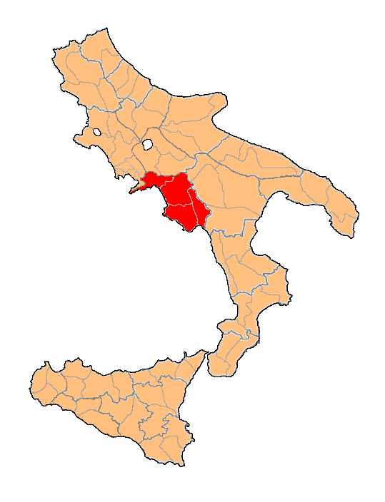 Map of Principato Citra, departments of Kingdom of the Two Sicilies